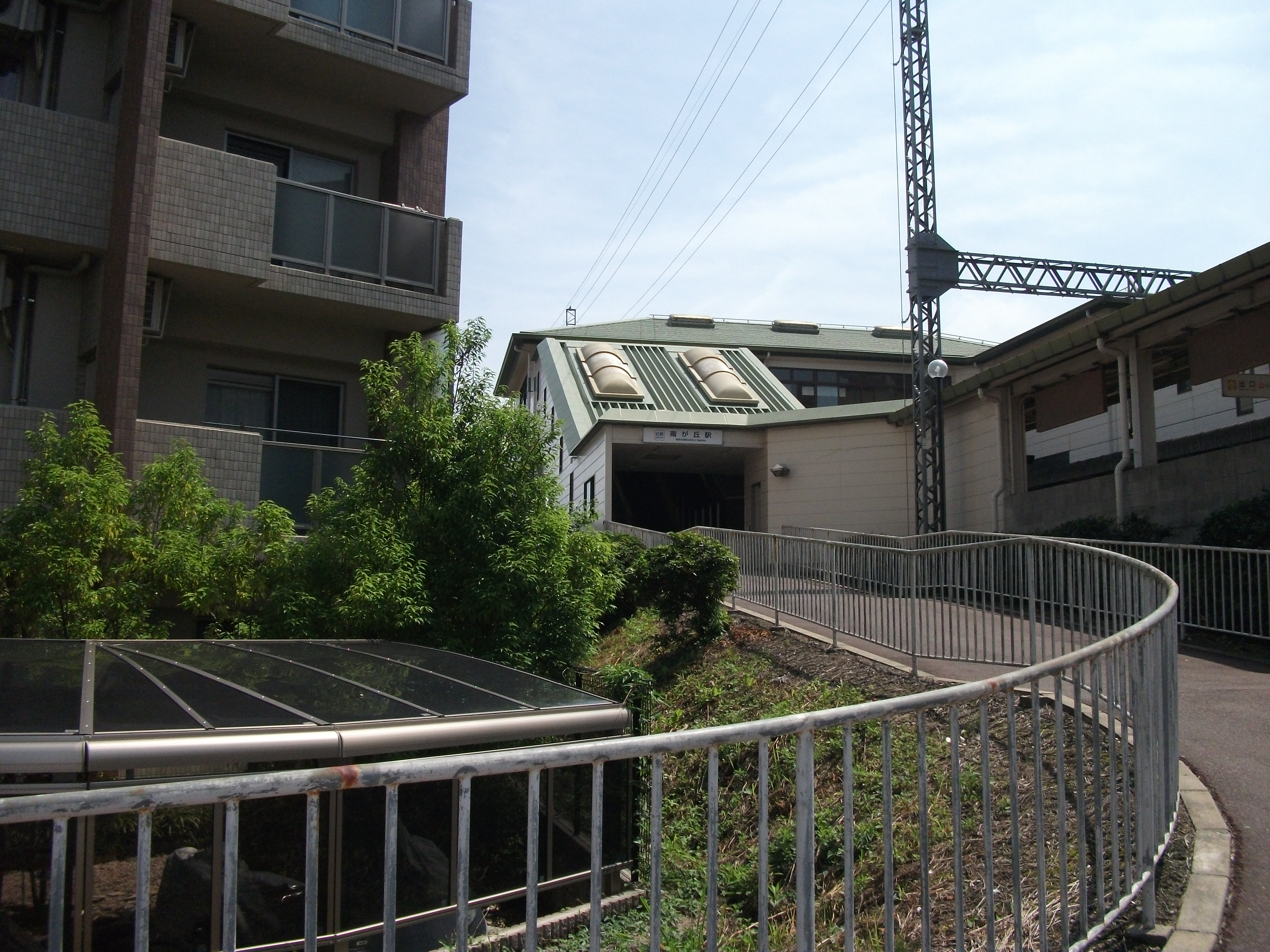 Kintetsu Minamigaoka Station West Gate